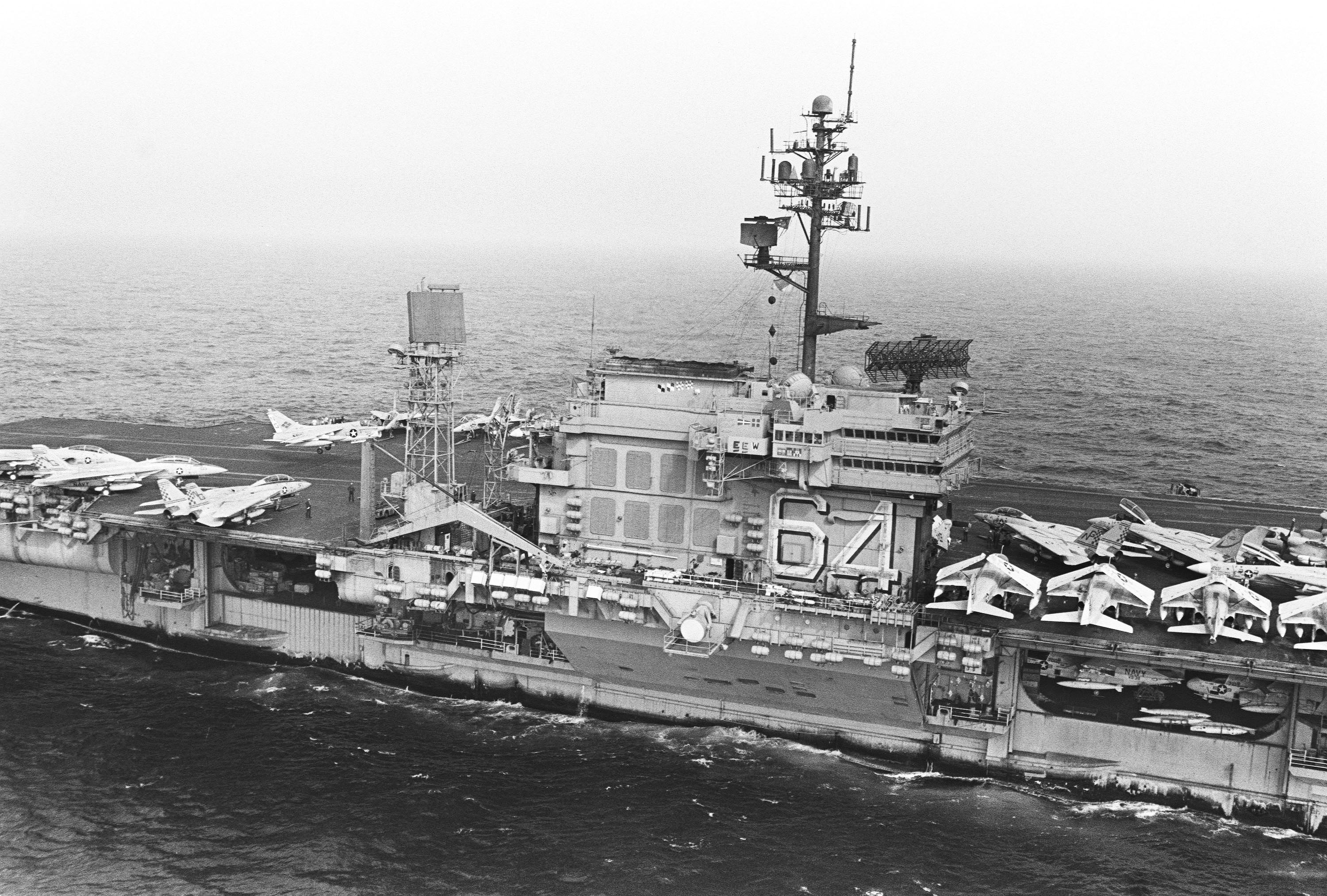 View of the amidships section of the U.S. Navy aircraft carrier USS Constellation (CV-64), as an LTV A-7E Corsair II aircraft from Attack Squadron VA-146 Blue Diamonds touches down on the flight deck during a landing. VA-146 was assigned to Carrier Air Wing 9 (CVW-9) aboard the Constellation for a deployment to the Western Pacific and the Indian Ocean from 26 January to 30 October 1980.